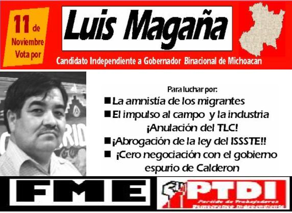 flayer campaing magana for goverment the Michoacan